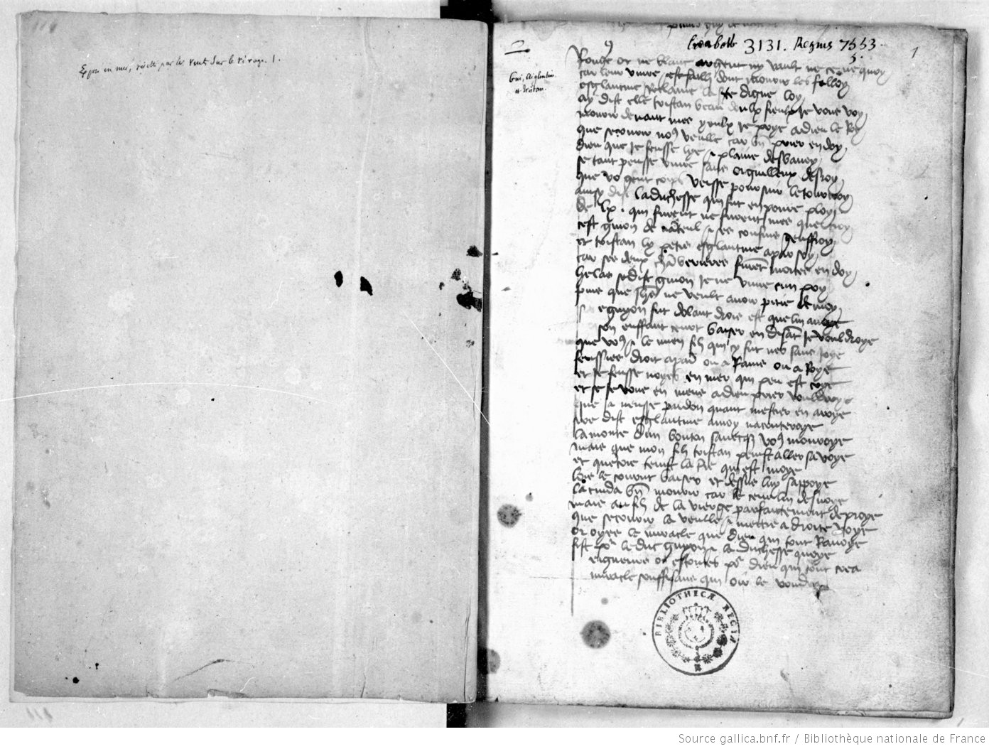 Tristan de Nanteuil, only remaining manuscript dating from the half of the 15th century. Digitalisation made by the Bibliothèque nationale de France